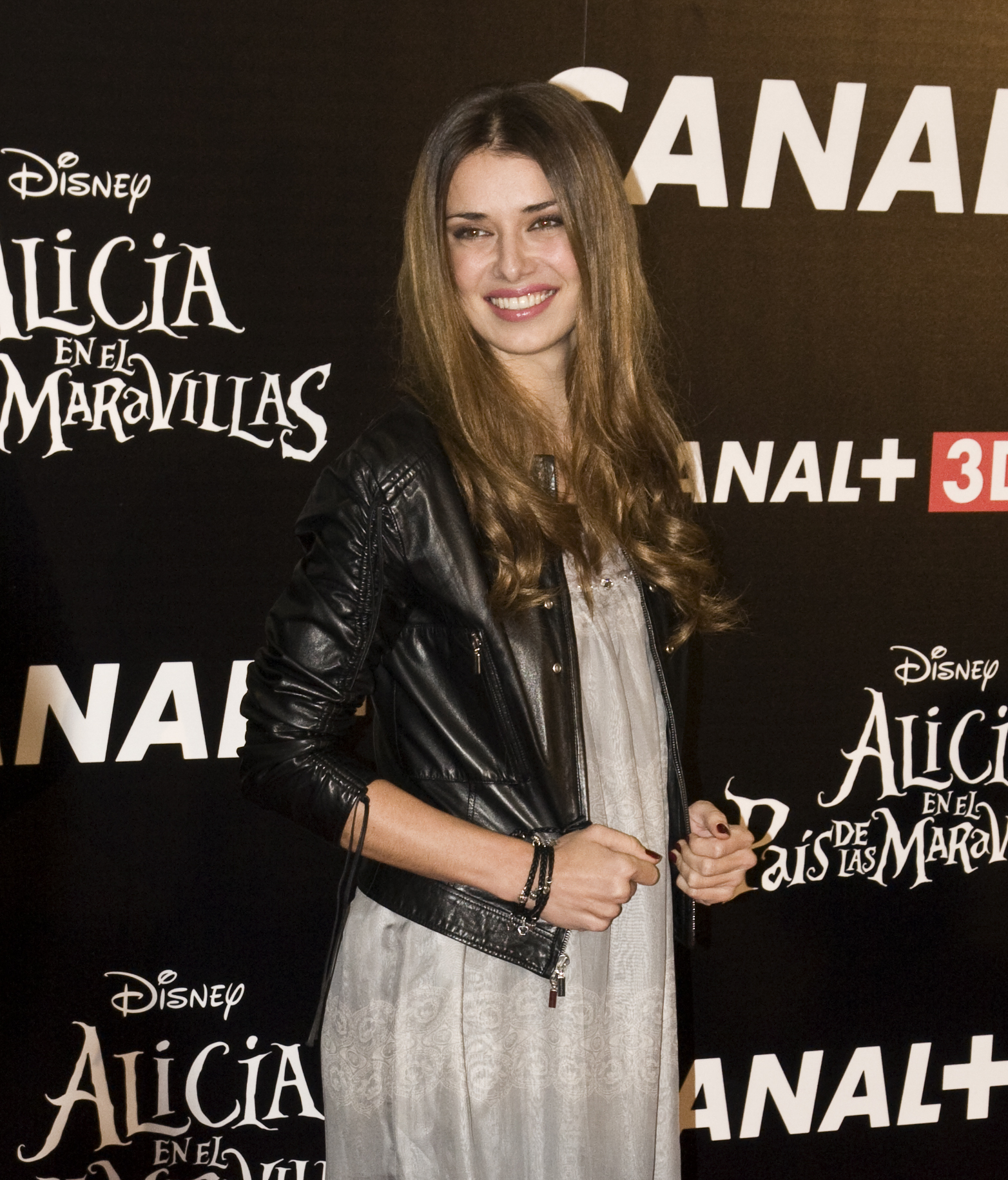 Natasha Yarovenko Spanish actress at the photocall of Alice in Wonderland in 2010.